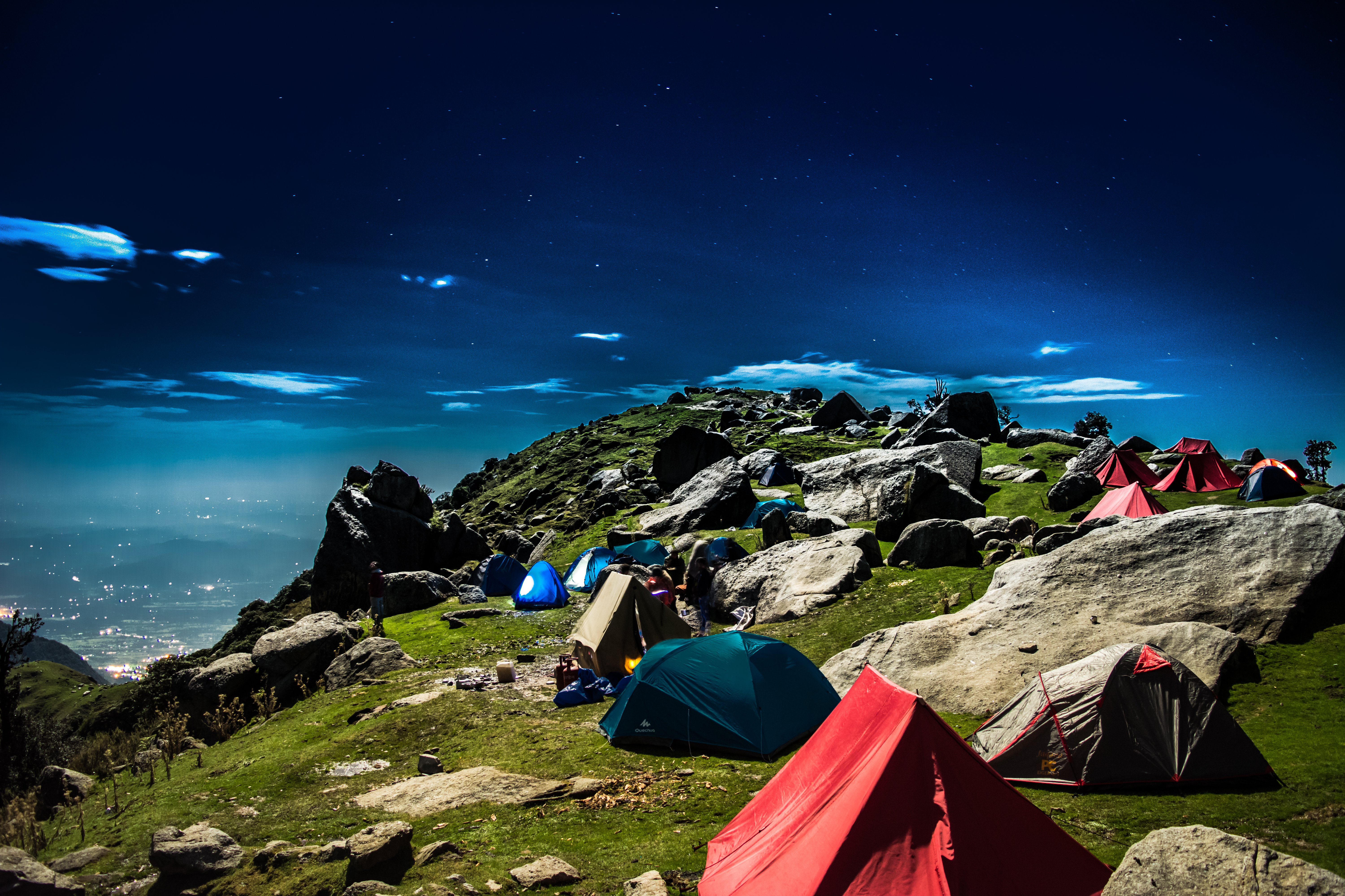 Triund Campsite is a base camp and acclimatisation point for trekkers climbing the Inderahara point in the Mt. Dhauladhar.